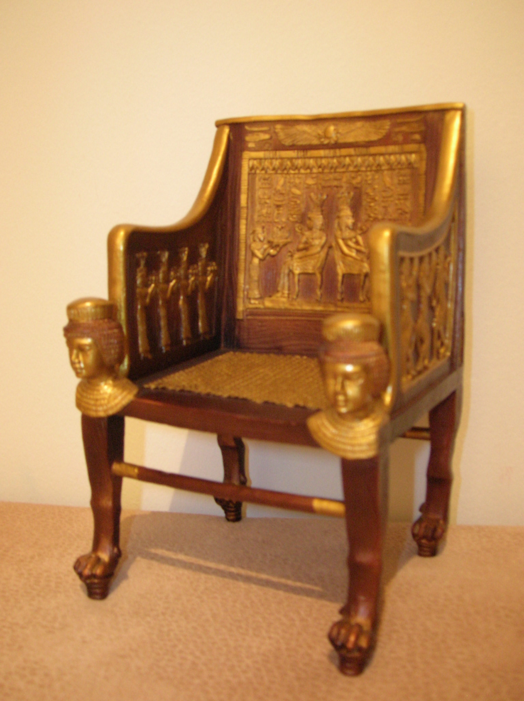 Replica of the chair of Princess Sitamun (18th dynasty of Ancient Egypt). As it is the replica of a more than 3000 years old work, original copyright does not apply.